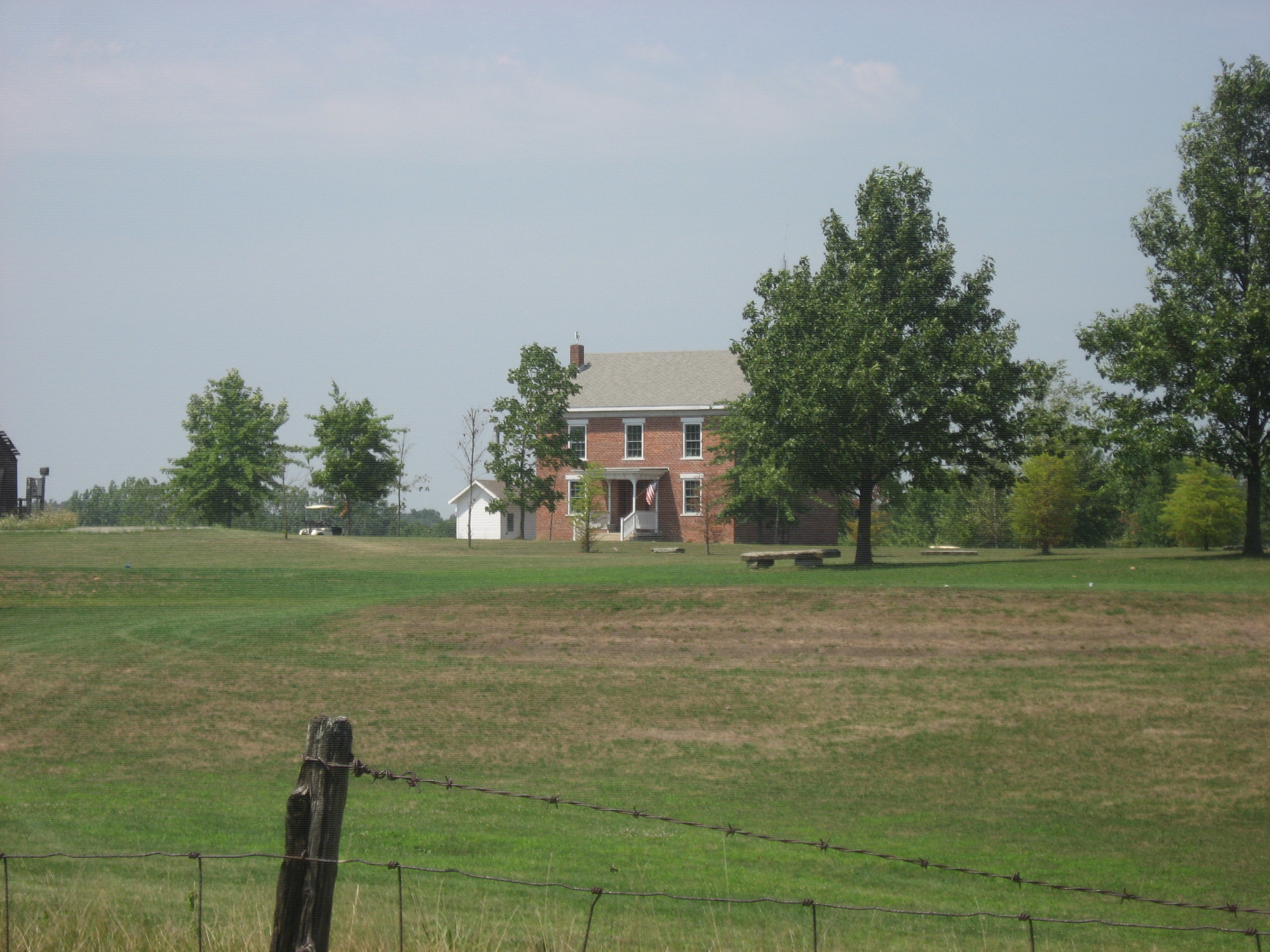 Roadside view of the Israel Jenkins House, located at 7453 E400S southeast of Marion in Monroe Township, Grant County, Indiana, United States. Built in 1840, it is listed on the National Register of Historic Places.